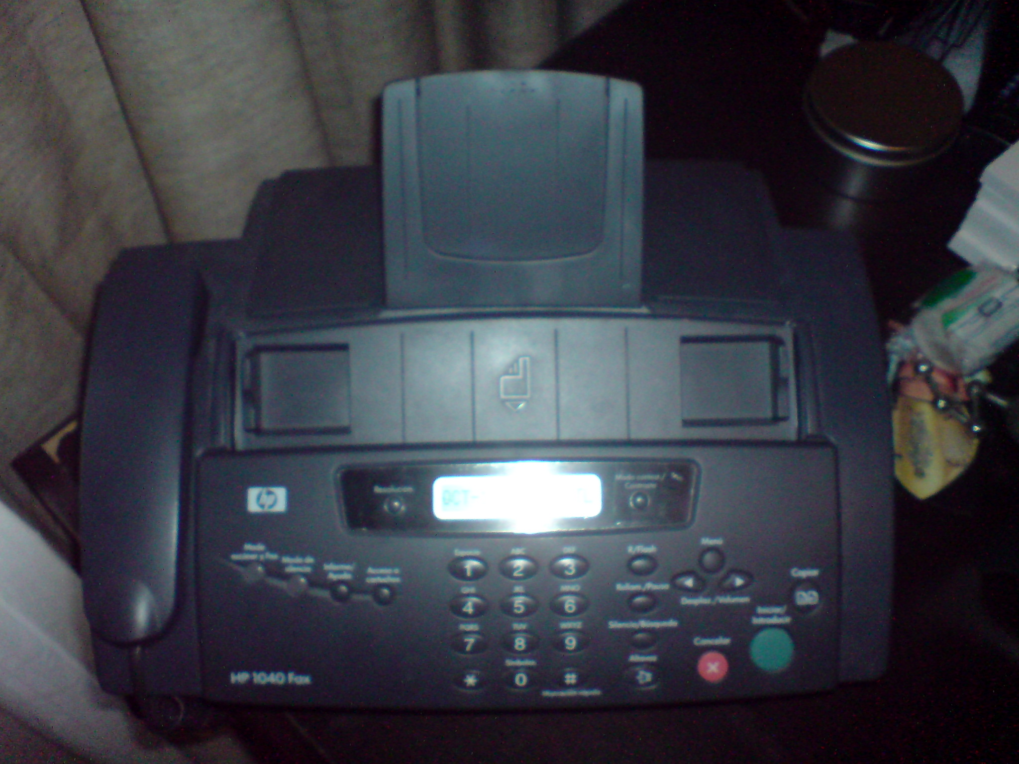 fax